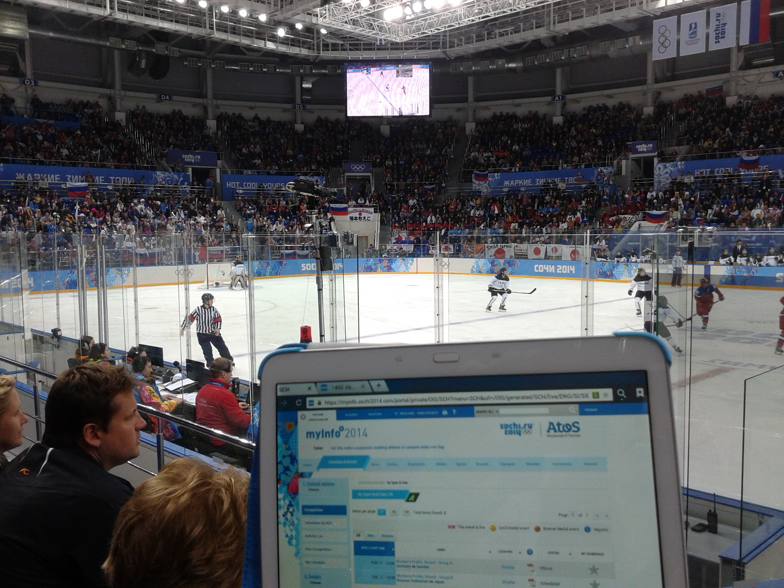 Japan in a women's hockey game at the Shabya Arena during the 2014 Winter Olympics